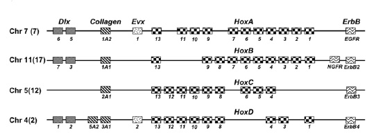 Human hox paralogon